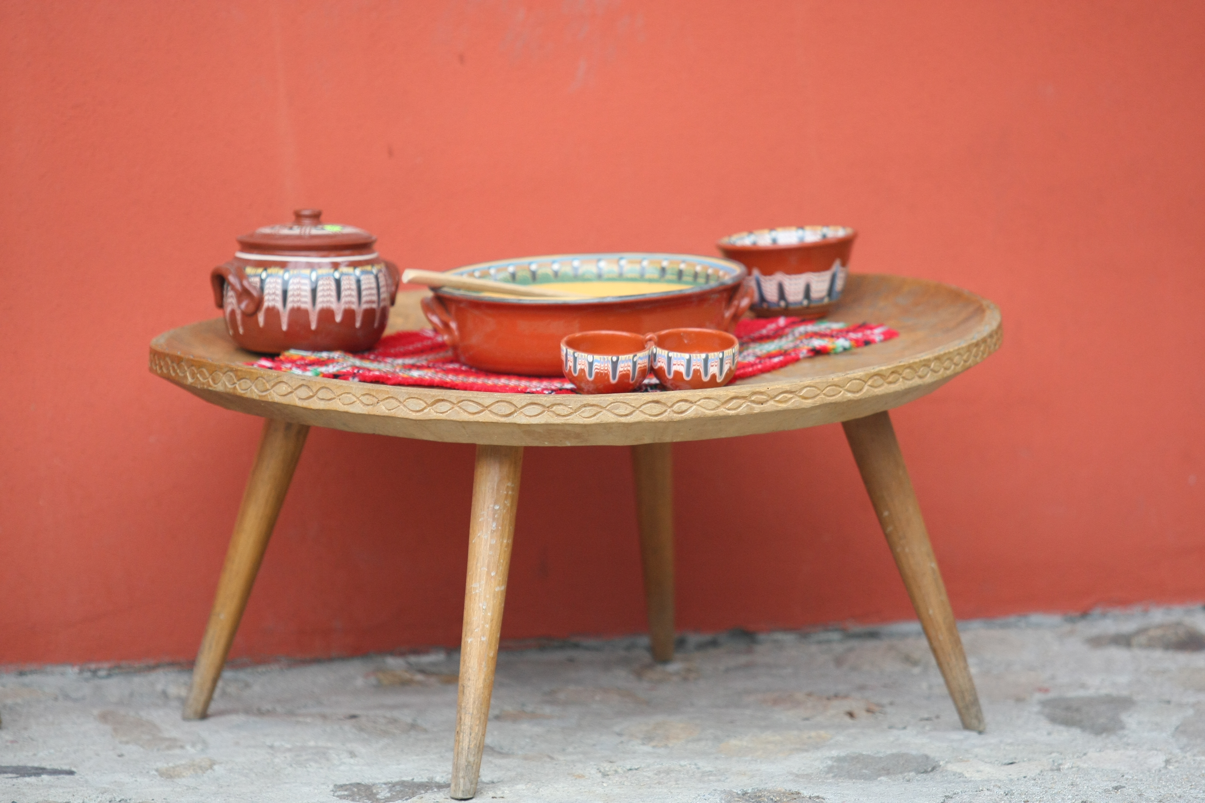 Traditional Bulgarian table This photo has been taken in the country: Unknown